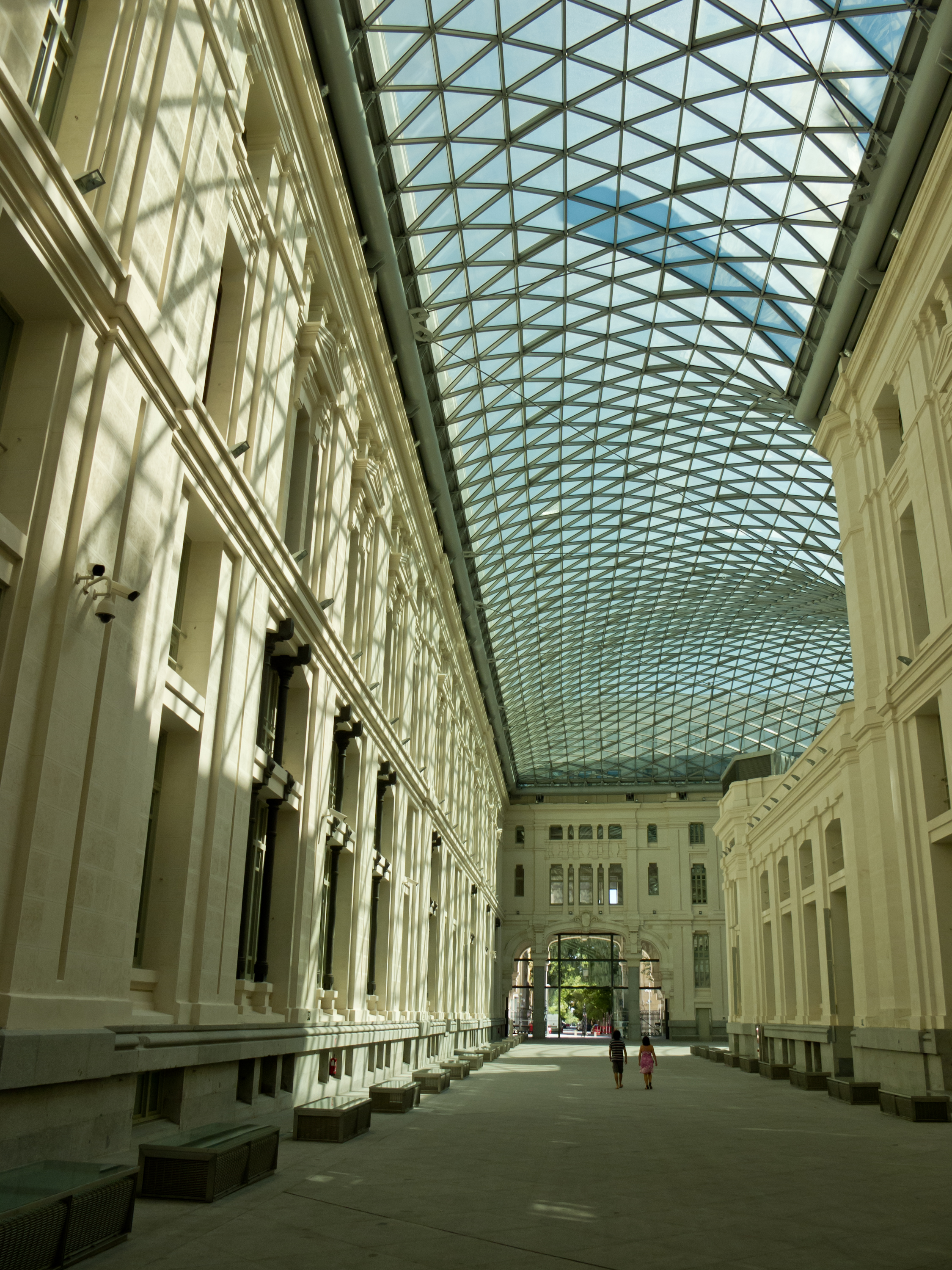 Palace of Communication, Madrid, Spain.